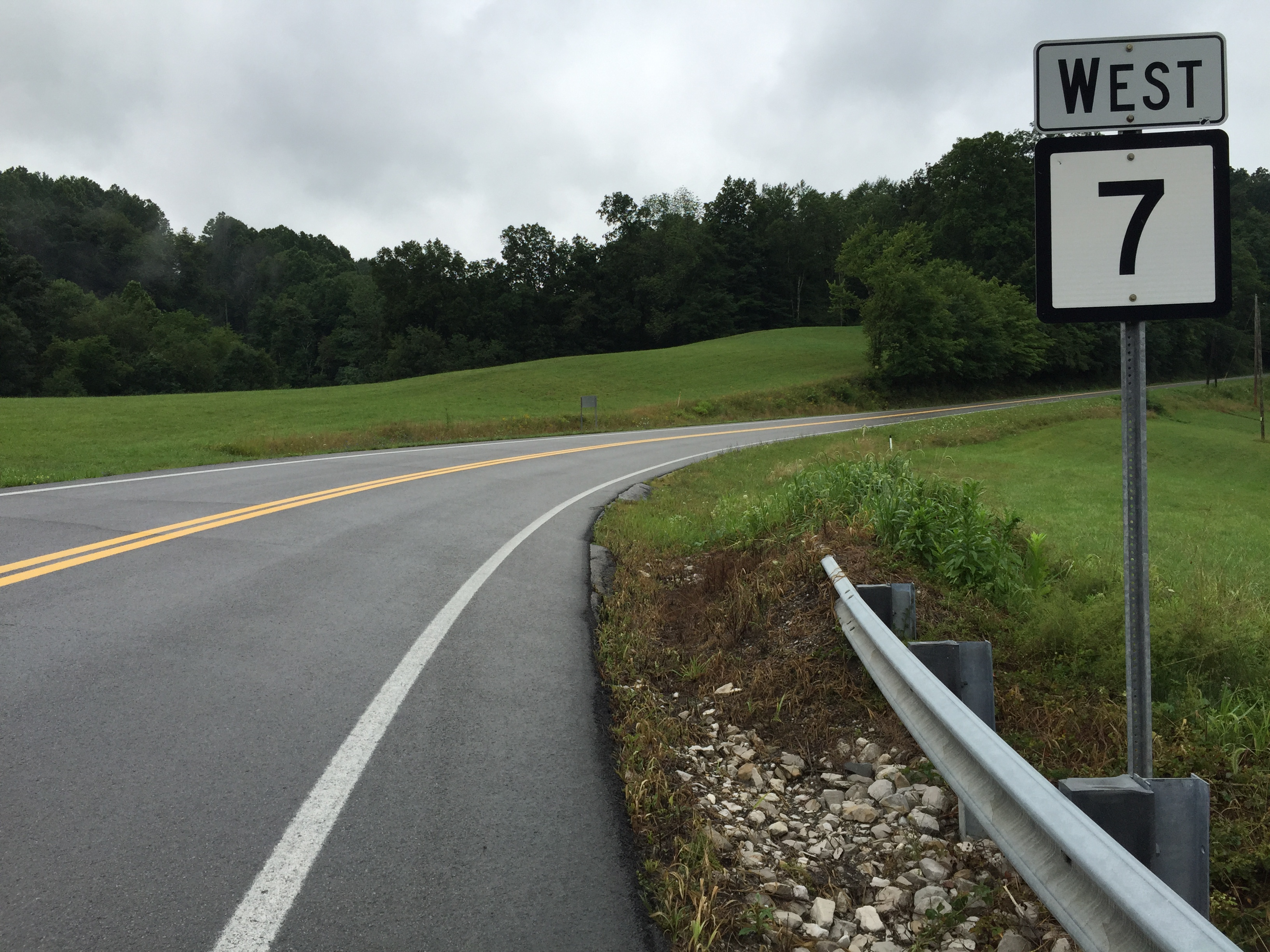 View west along West Virginia State Route 7 (Mountaineer Highway) at Mount Herman Road (Wetzel County Route 7/16) in Anthem, Wetzel County, West Virginia